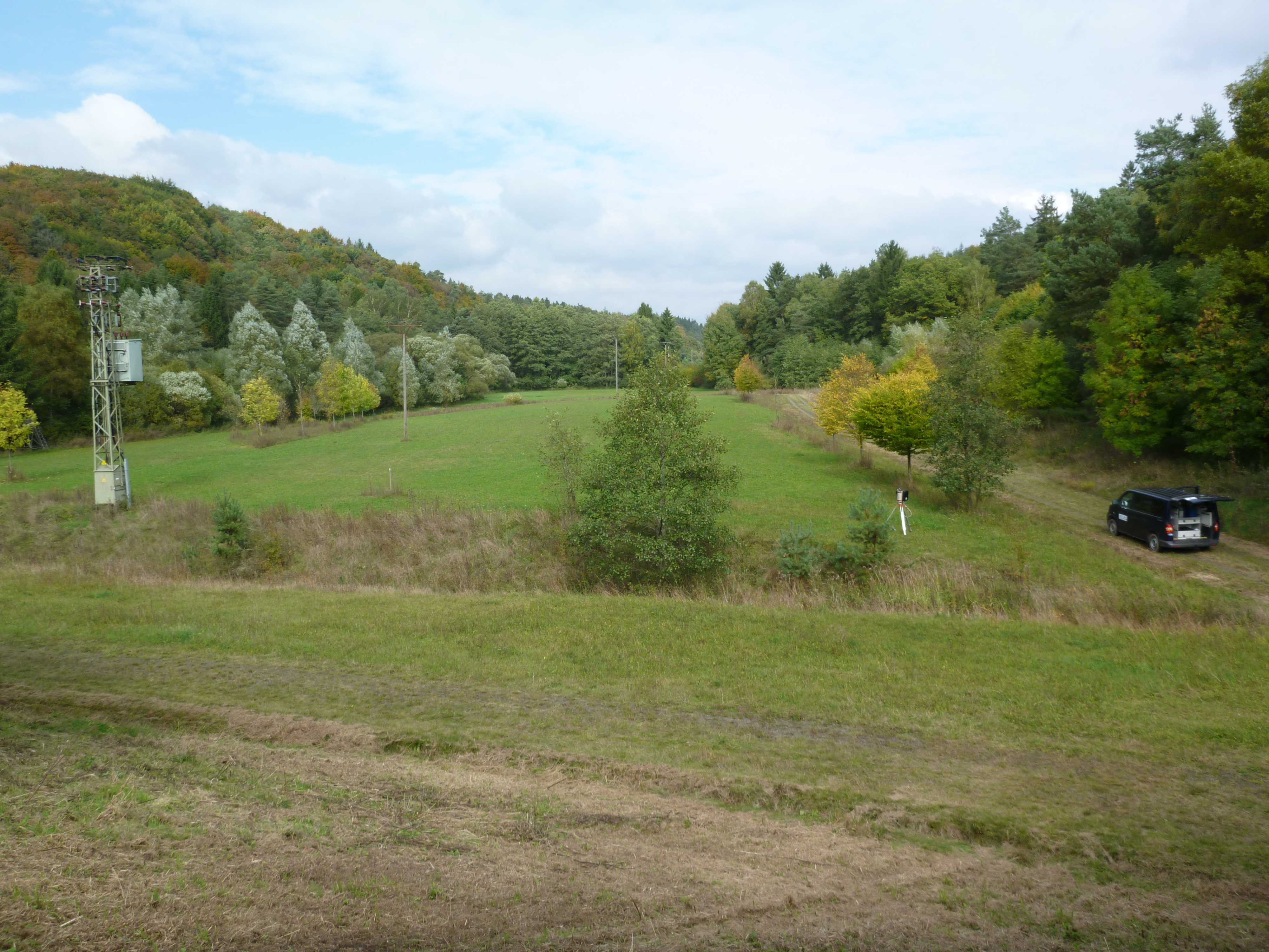 View form one of the two waste rock piles to the former factory premises